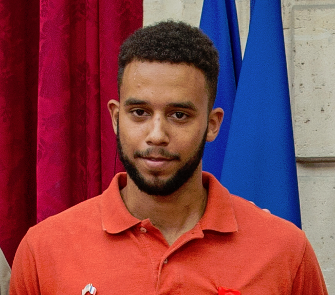 Anthony Sadler, American author, pictured in Paris in 2015.